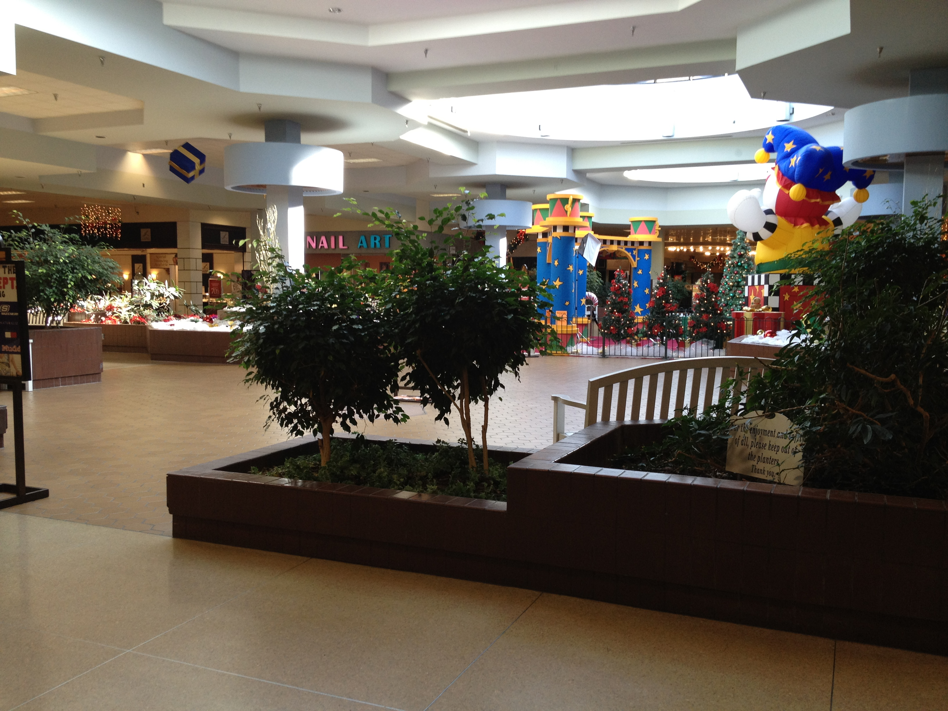 Interior of Schuylkill Mall, December 6, 2012.